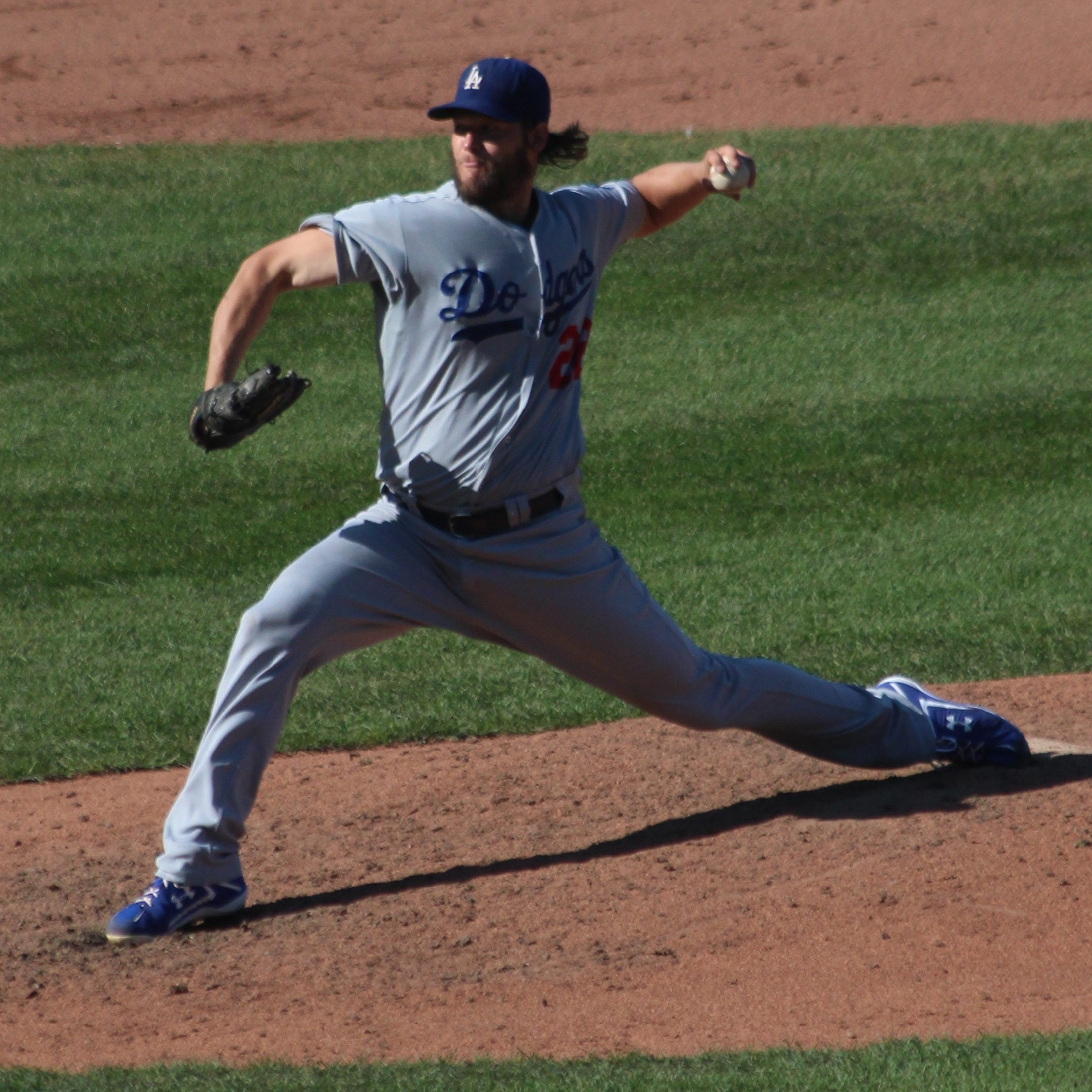 Clayton Kershaw for the 2014 Los Angeles Dodgers against the 2014 Chicago Cubs at Wrigley Field.